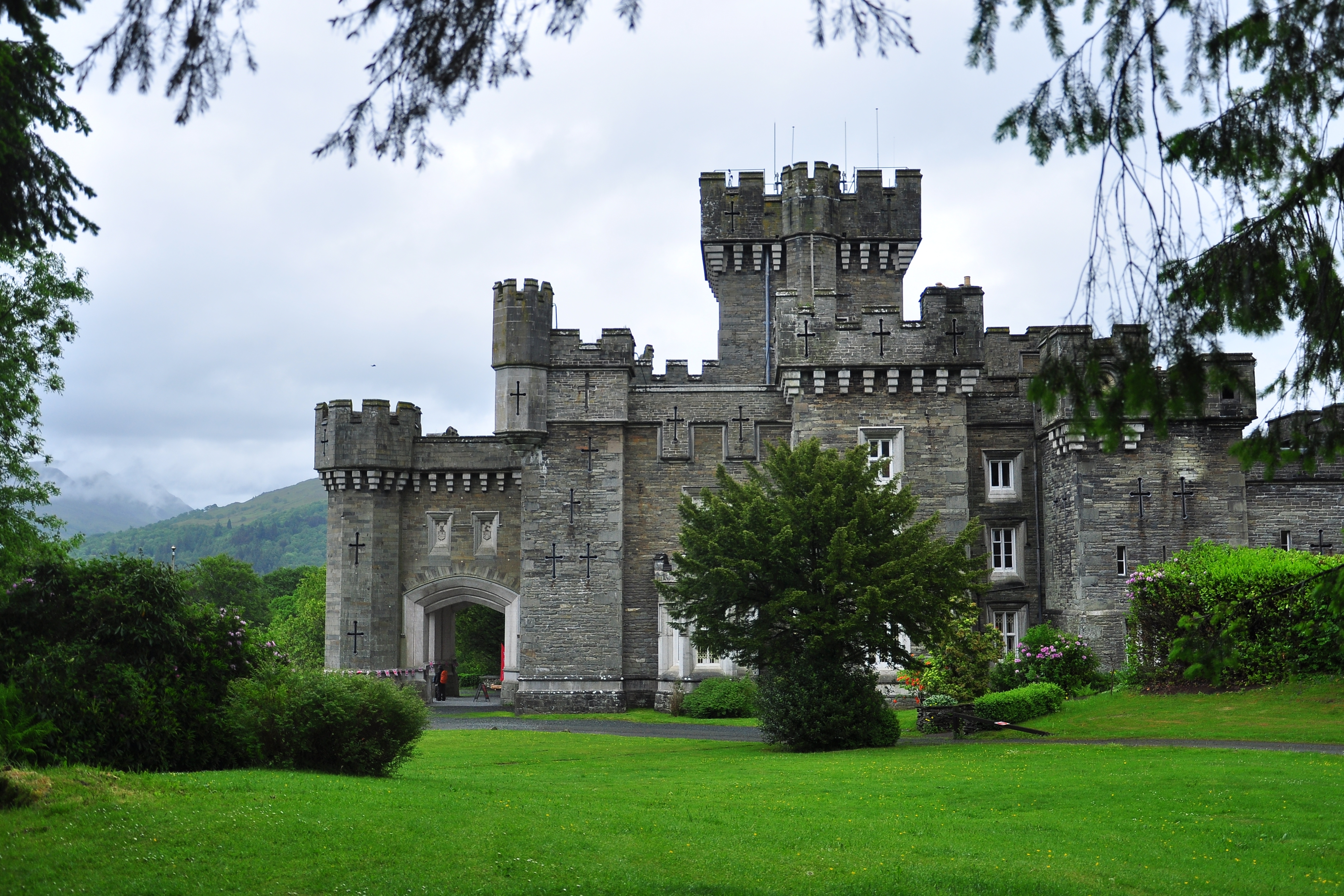 Beatrix Potter aged 16 stayed here in 1882 on a family vacation, thus began her long association with the English Lake District.